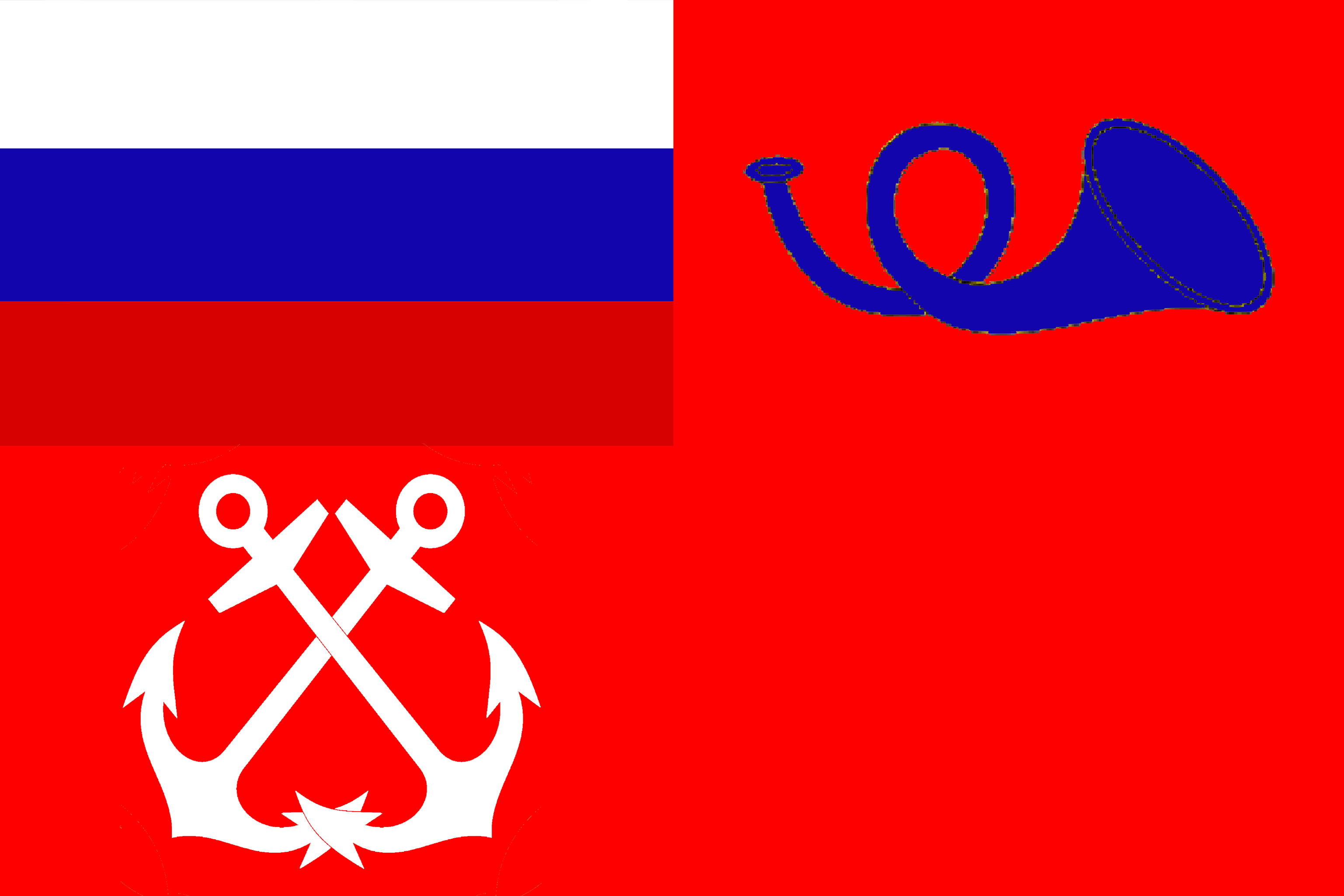 Flag of Russian Postal vessels 1853 (Caspian Sea)